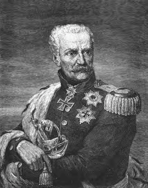 Marshal Gebhard von Blücher, the tireless commander in chief of Prussian forces in the campaigns of 1813–1815.